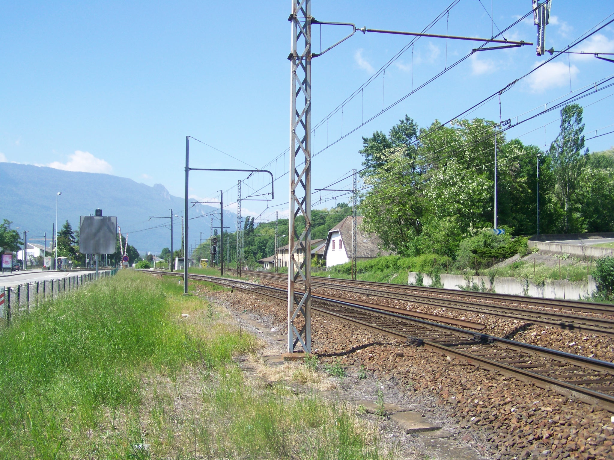 Sight on the French railway lines to Lyon (single track on the left) and to Annecy and Geneva (double tracks on the right) separating at Chambéry in Savoie.